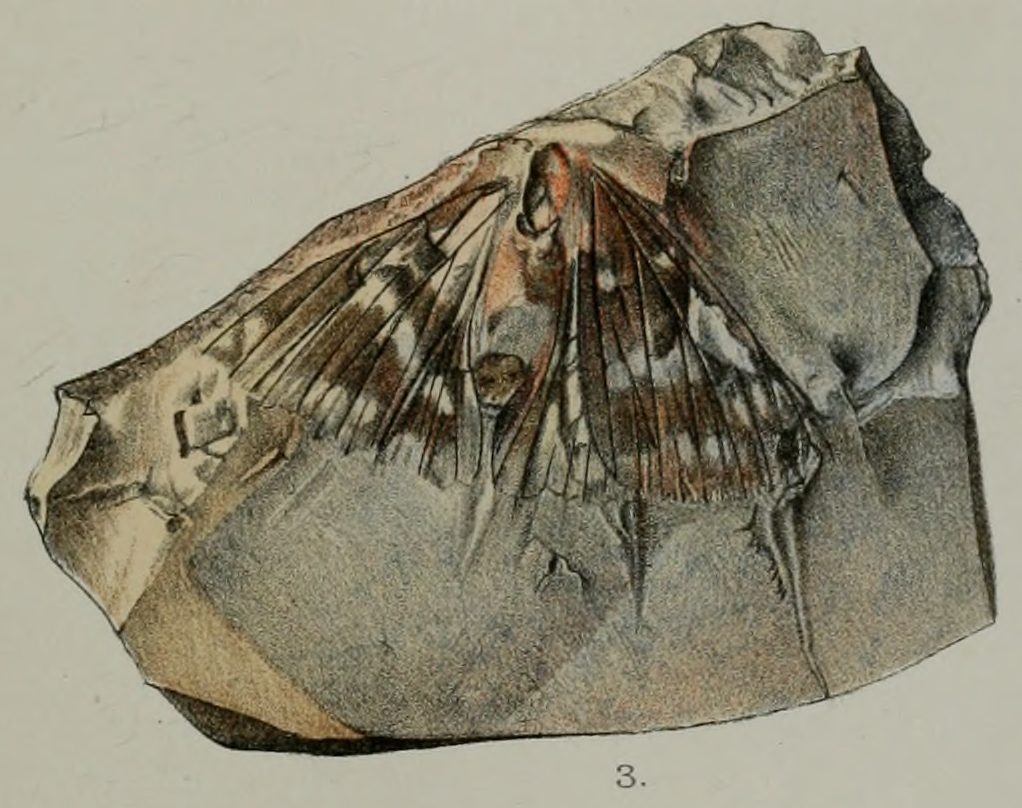 Fossil Papilionid Butterfly Lithopsyche antiqua from Early Oligocene Bembridge Marls